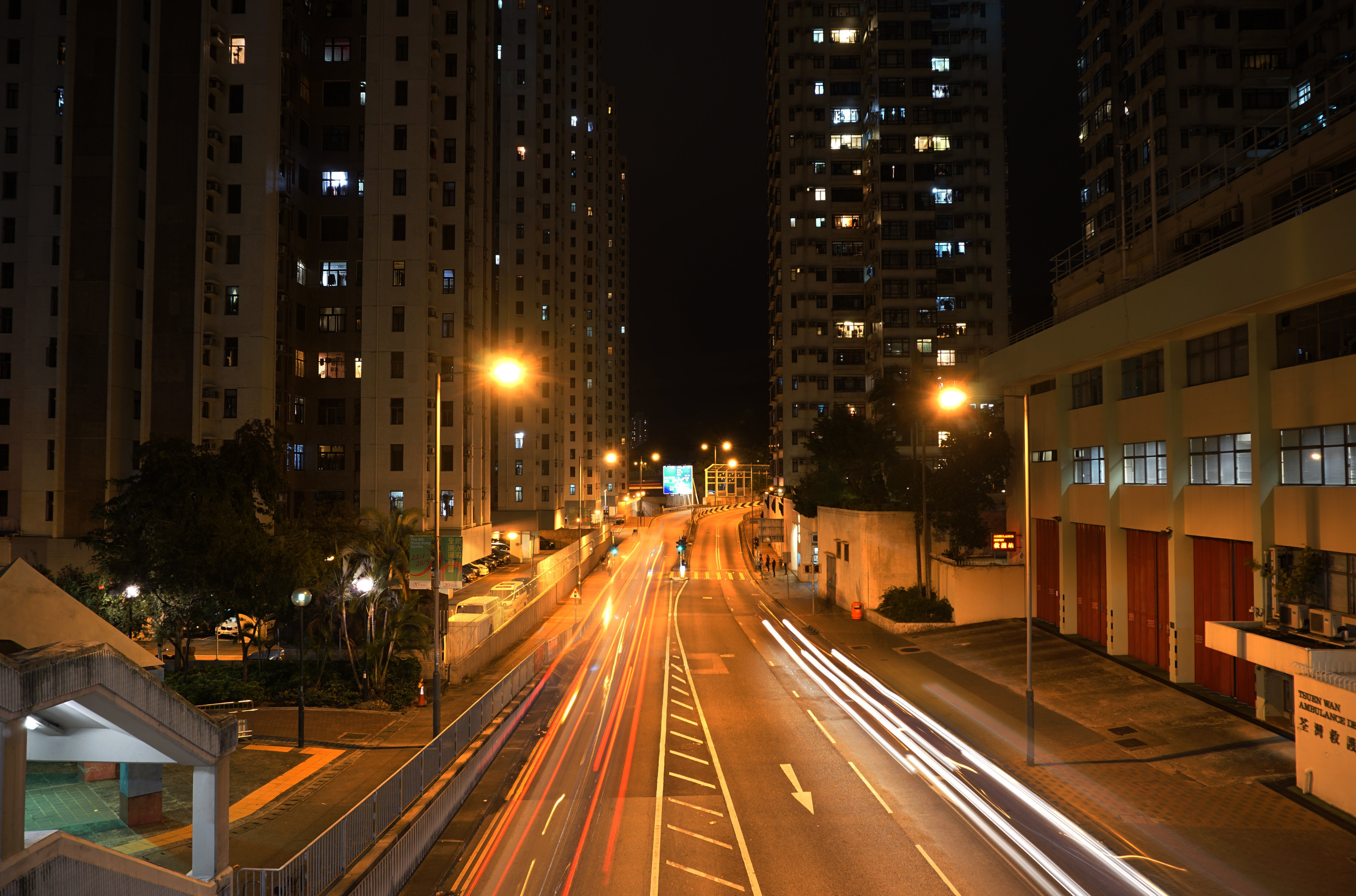 Wai Tsuen Road in Tsuen Wan, Hong Kong.